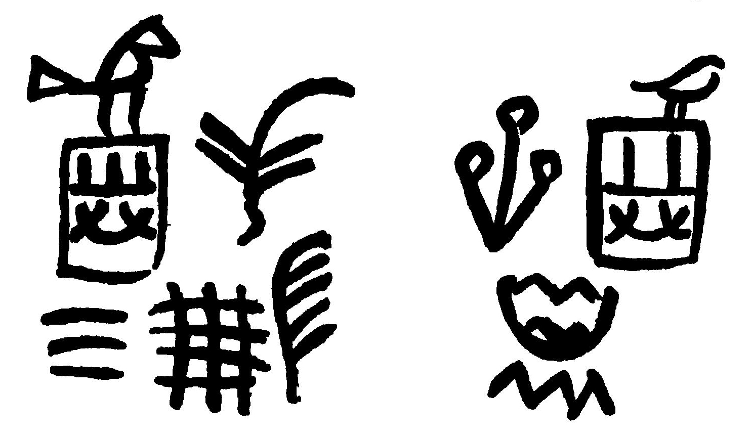 Names of King Ka and Queen Ha on a jar